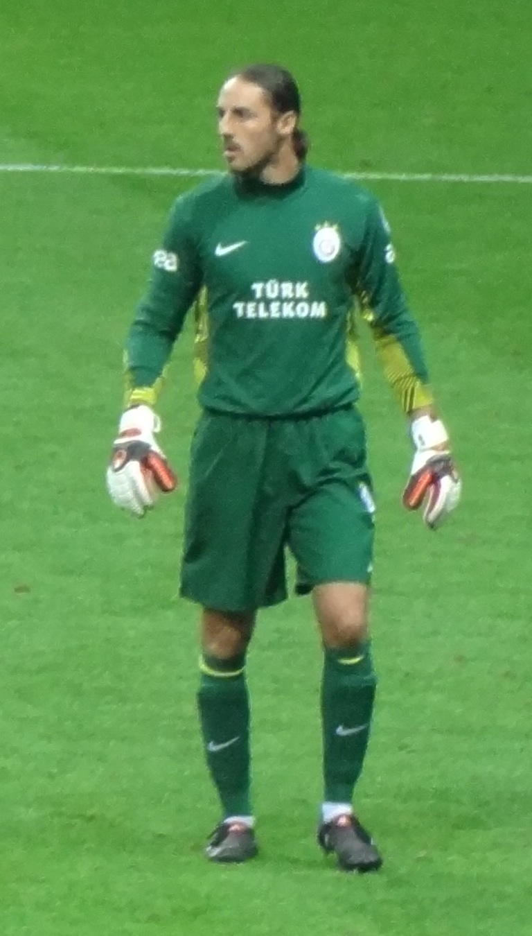 aykut erçetin vs eskişehirspor 26.09.11 Gs 2 - Es-Es 0